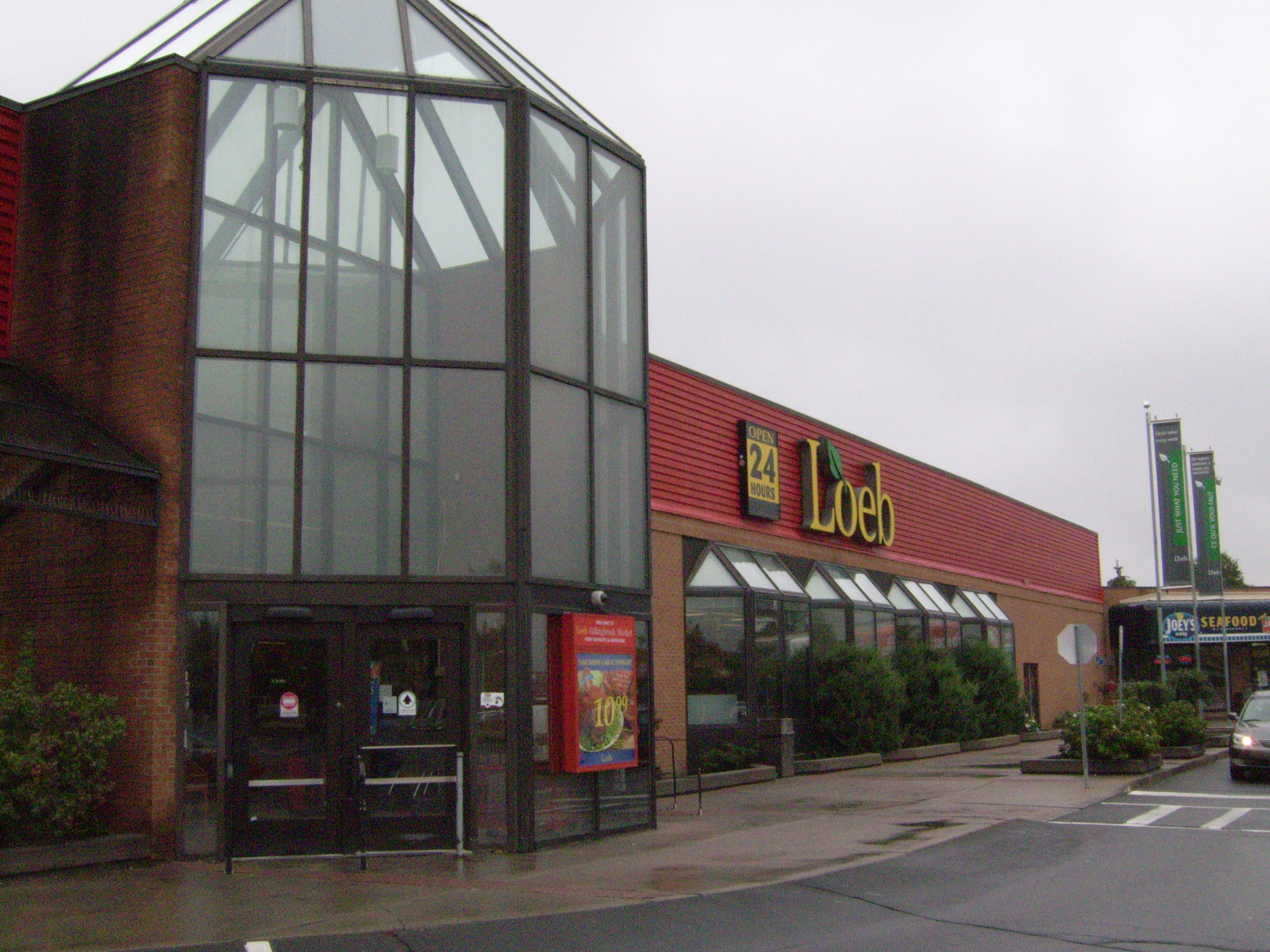 Loeb Fallingbrook 1675 10th Line Rd, C1, Orléans, Ontario K1E3P6[1] 613-837-2614[2] I CyclePat, took this picture on my Centrios 8.0 Mega Pixels Digital Camera on September 14th 2006 at approx. 12h50 EST. It was uploaded to Wikipedia on September 15, 2006 at approx. 15h59 EST and is hereby release for the General Public and all those other legal terms to say it's free for whatever you want a do with it. CyclePat 19:57, 15 September 2006 (UTC)